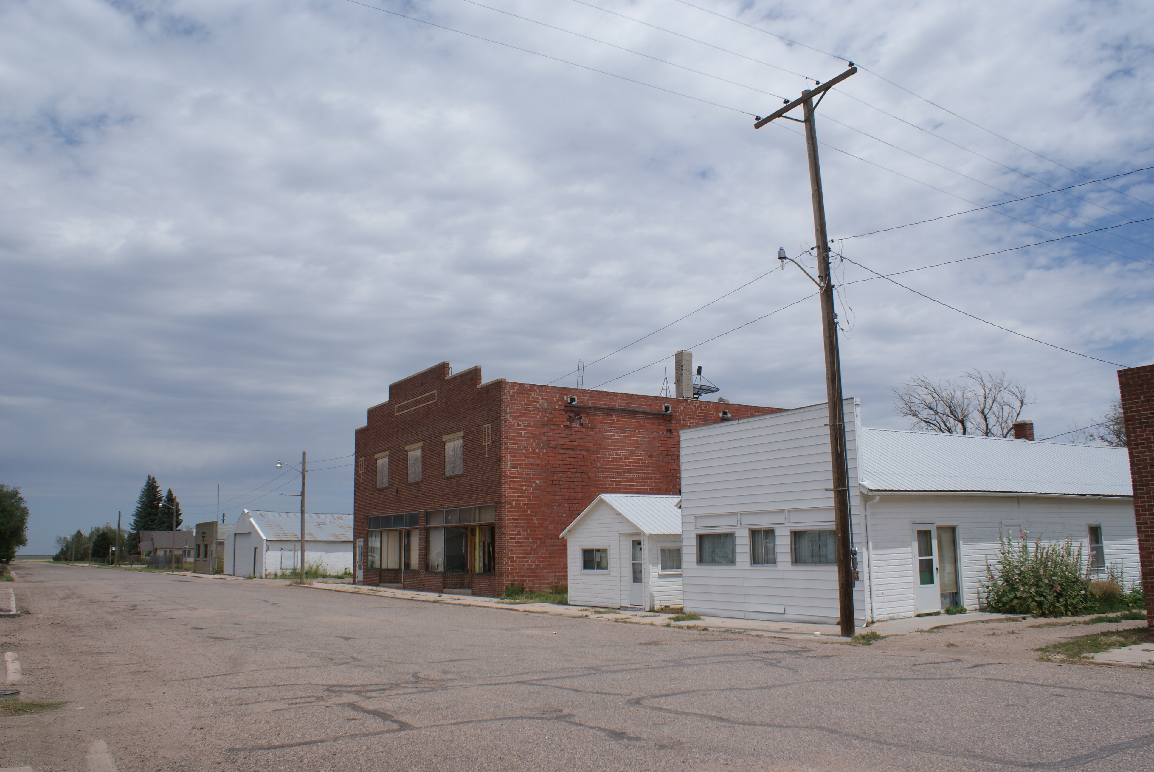 Downtown Genoa, Colorado, USA